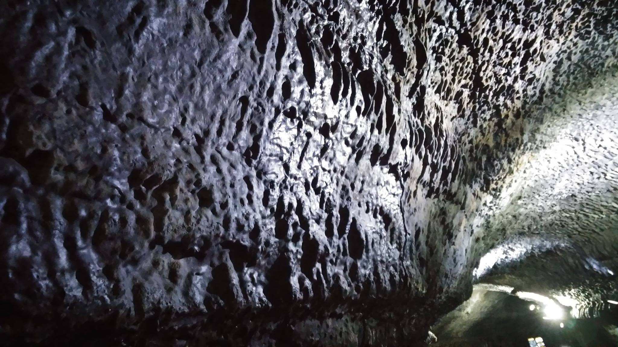 The beautiful cave wall made naturally by the lava drip long time ago.